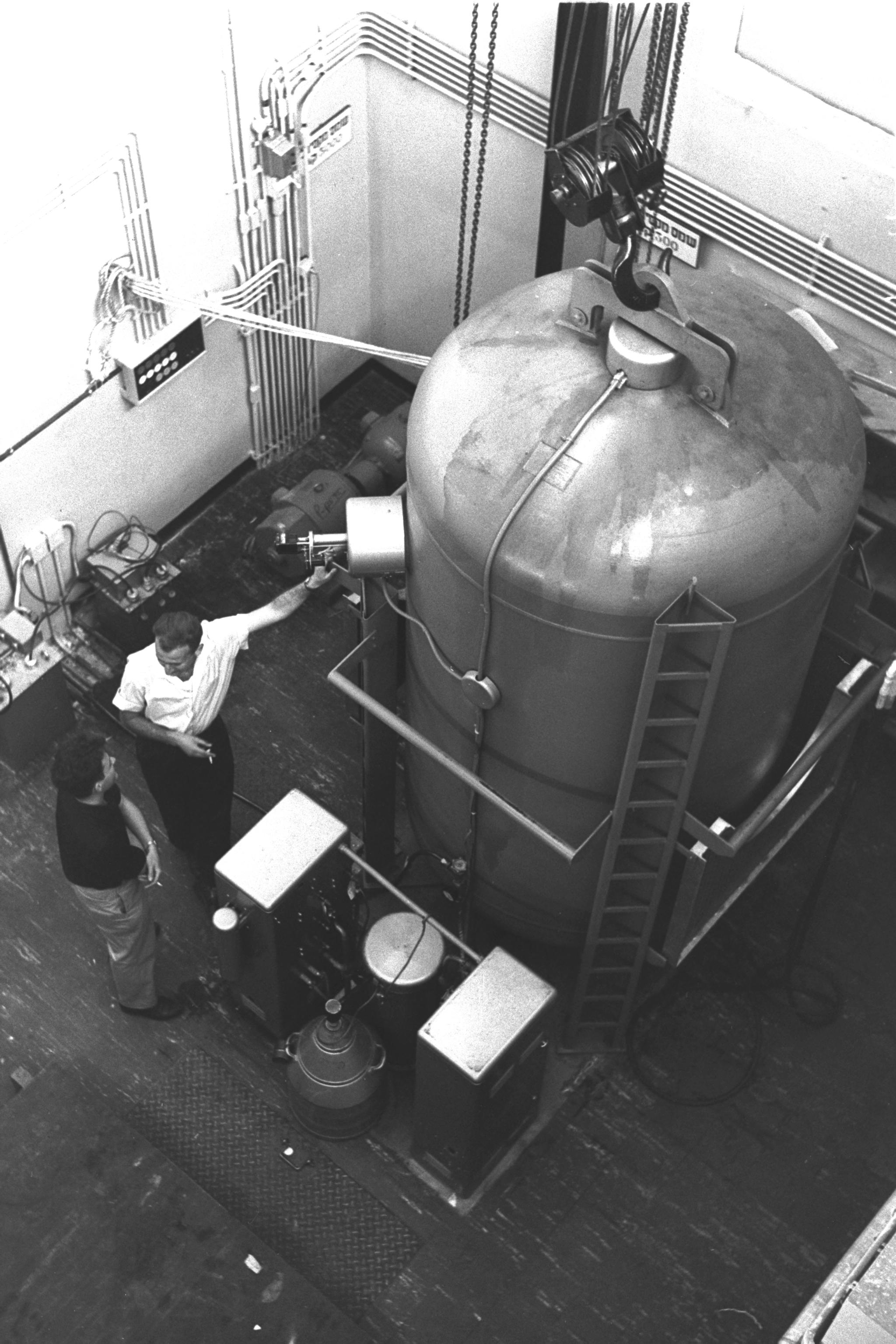 Van De Graaff accelerator at Weizmann Institute, Rehovot, Israel 1959